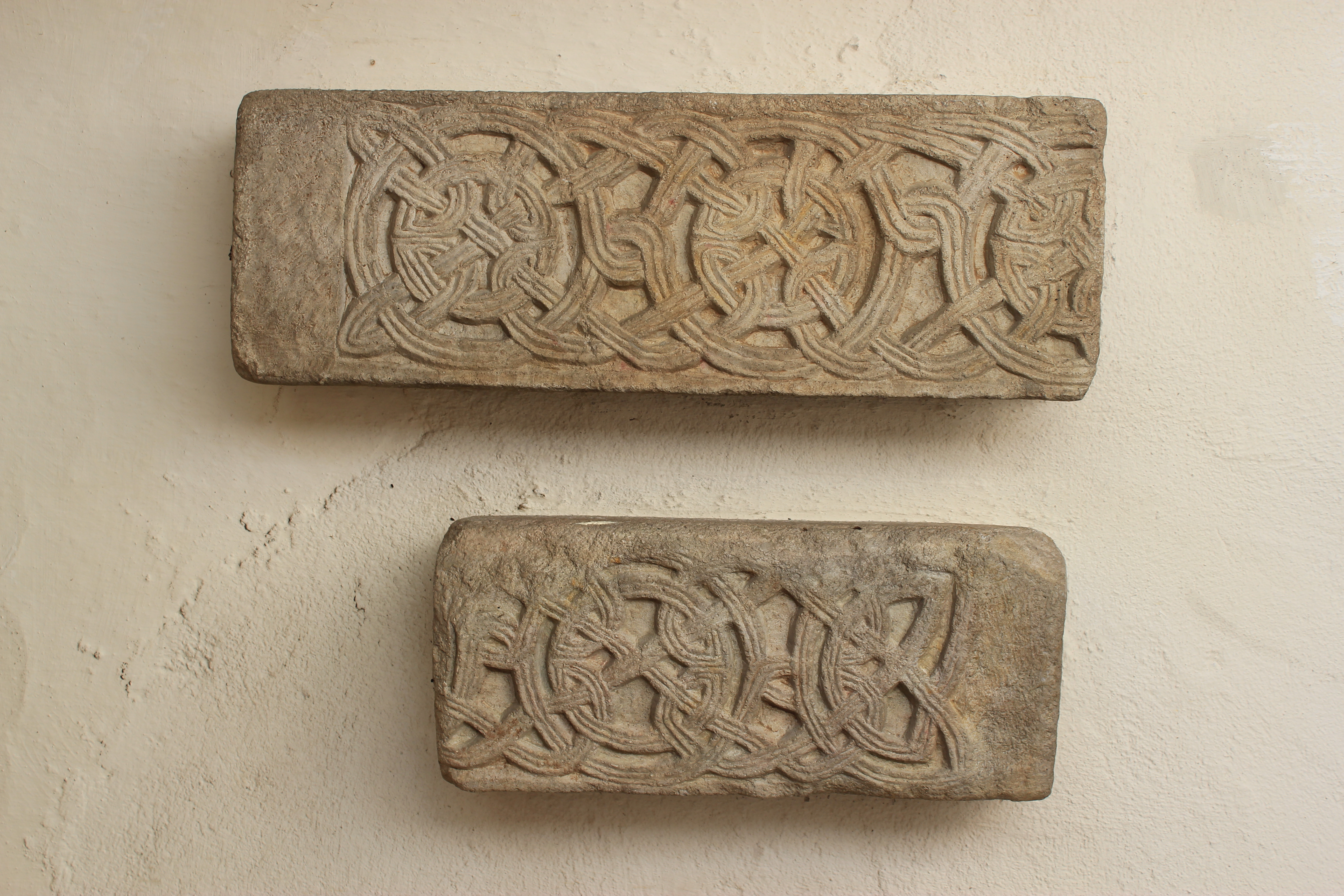 Church in Sankt Martin in the community of Völkermarkt - stone tracery